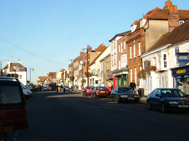 Bridge Street, Witham, Essex. Looking NE along Newland Street which lies on the B1389. This broad Essex town street affords generous parking on both sides and lies exactly on the path of the old Roman Road which linked London and Norwich via Colchester.